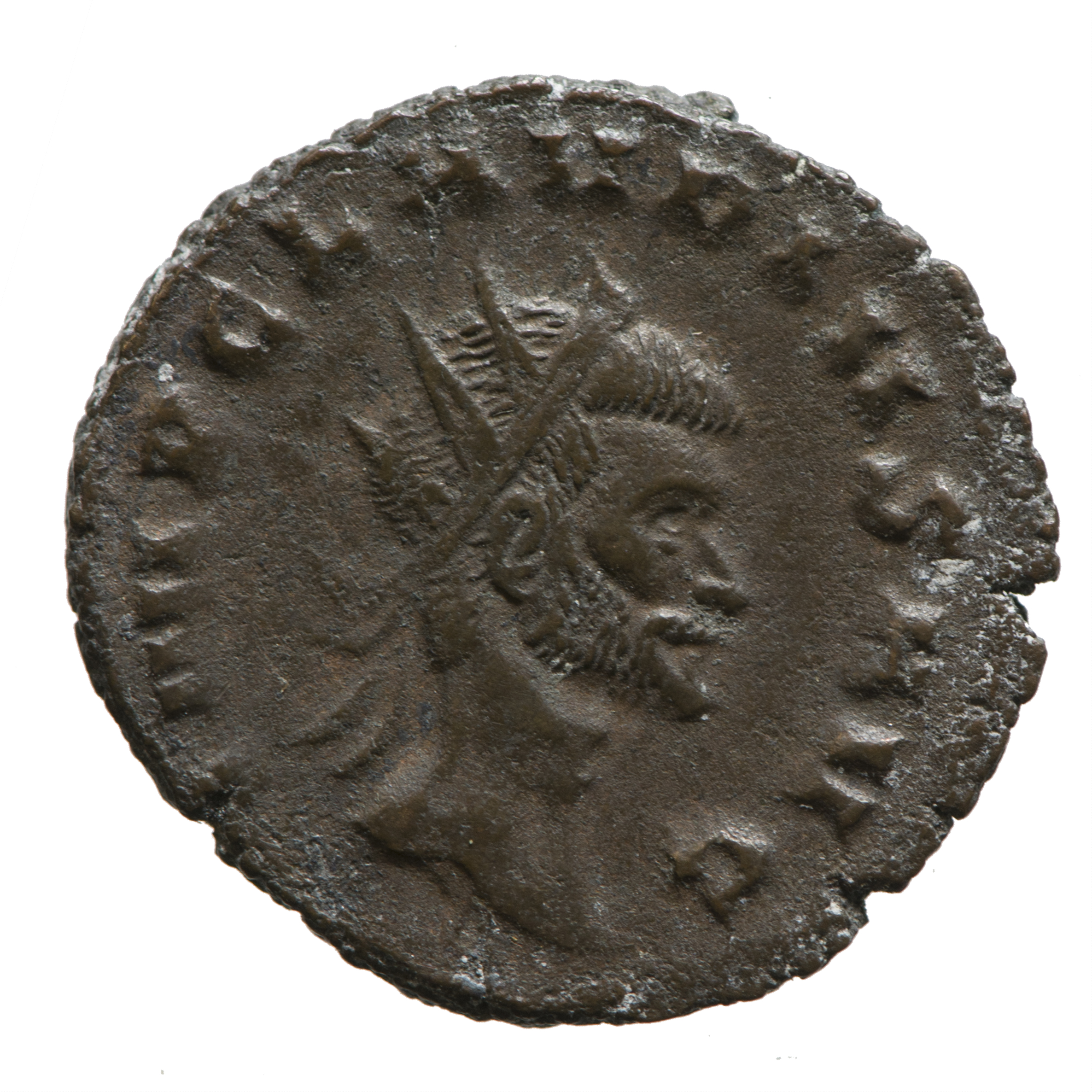 Obverse (front) of a radiate of w. Claudius II Gothicus showing Radiate head right